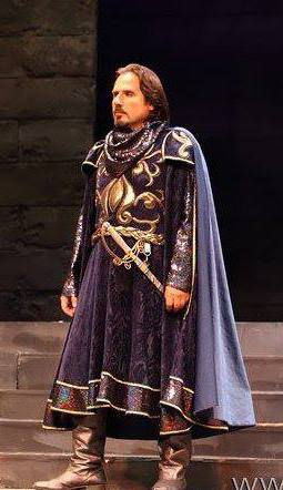 Turkish baritone Tamer Peker